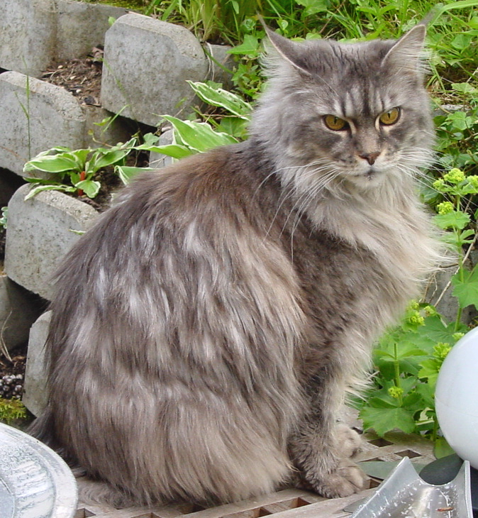 It's Me Cirrus Minor, called Lara, Maine Coon, female, blue silver tabby mackerel, 11 days before 8th birthday